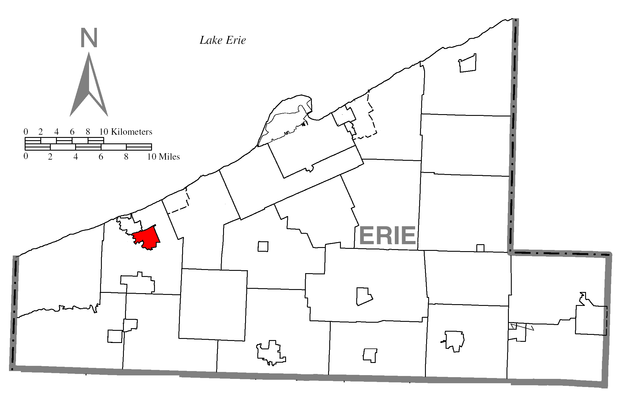 A map of Erie County showing Girard, Pennsylvania (alternate) highlighted on the map.